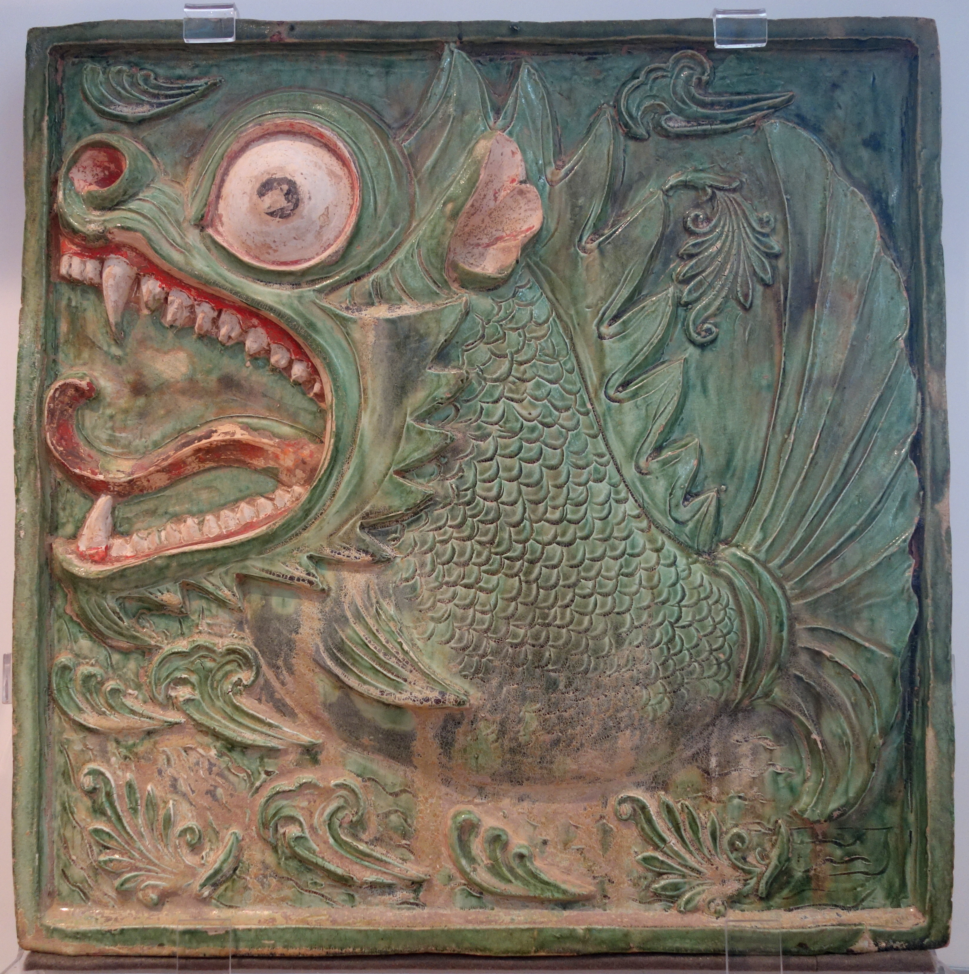 Exhibit in the Royal Ontario Museum, Toronto, Ontario, Canada. This work is old enough so that it is in the public domain.